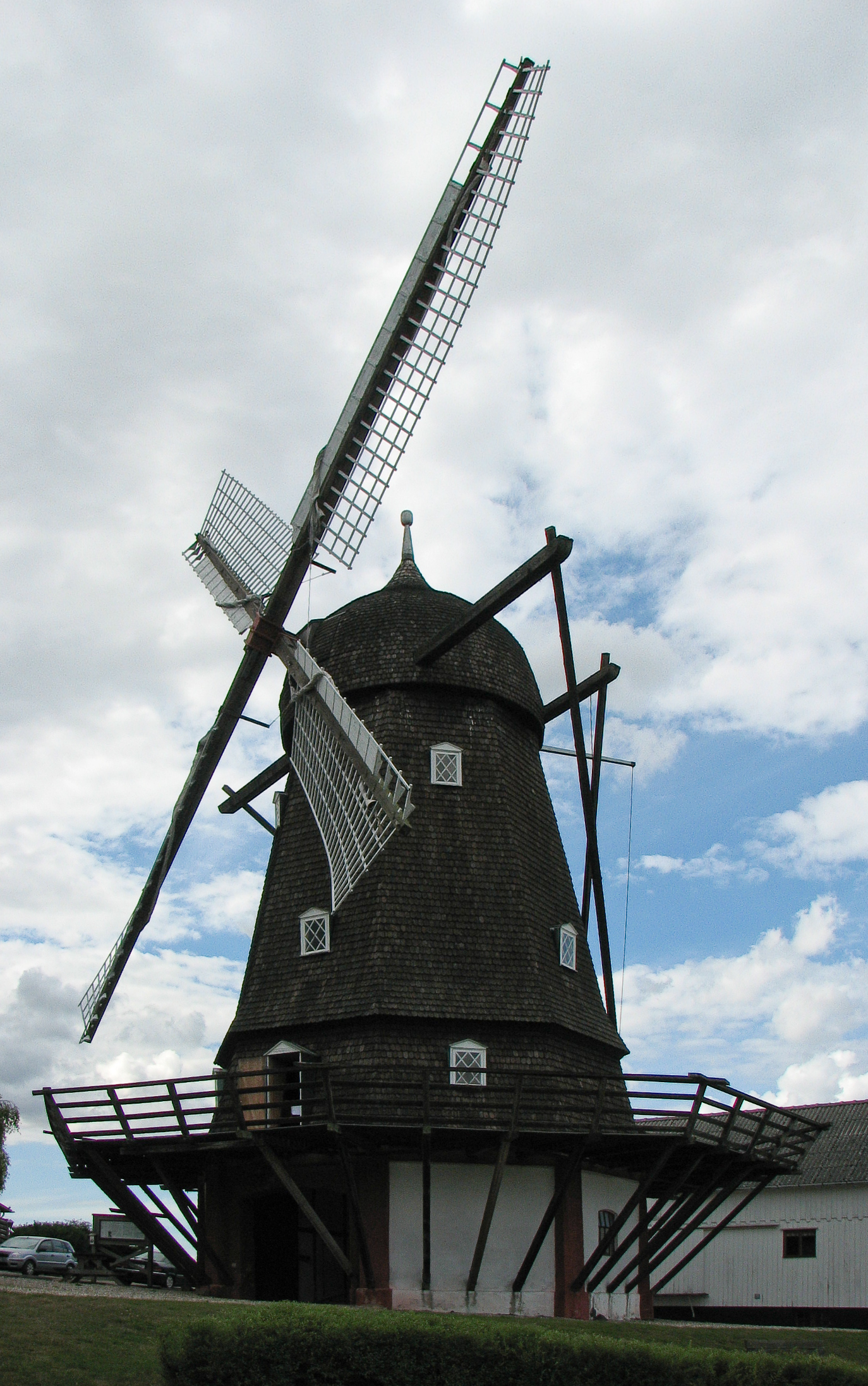 Nørre Jernløse windmill in DenmarkDansk: Nørre Jernløse Mølle i Danmark